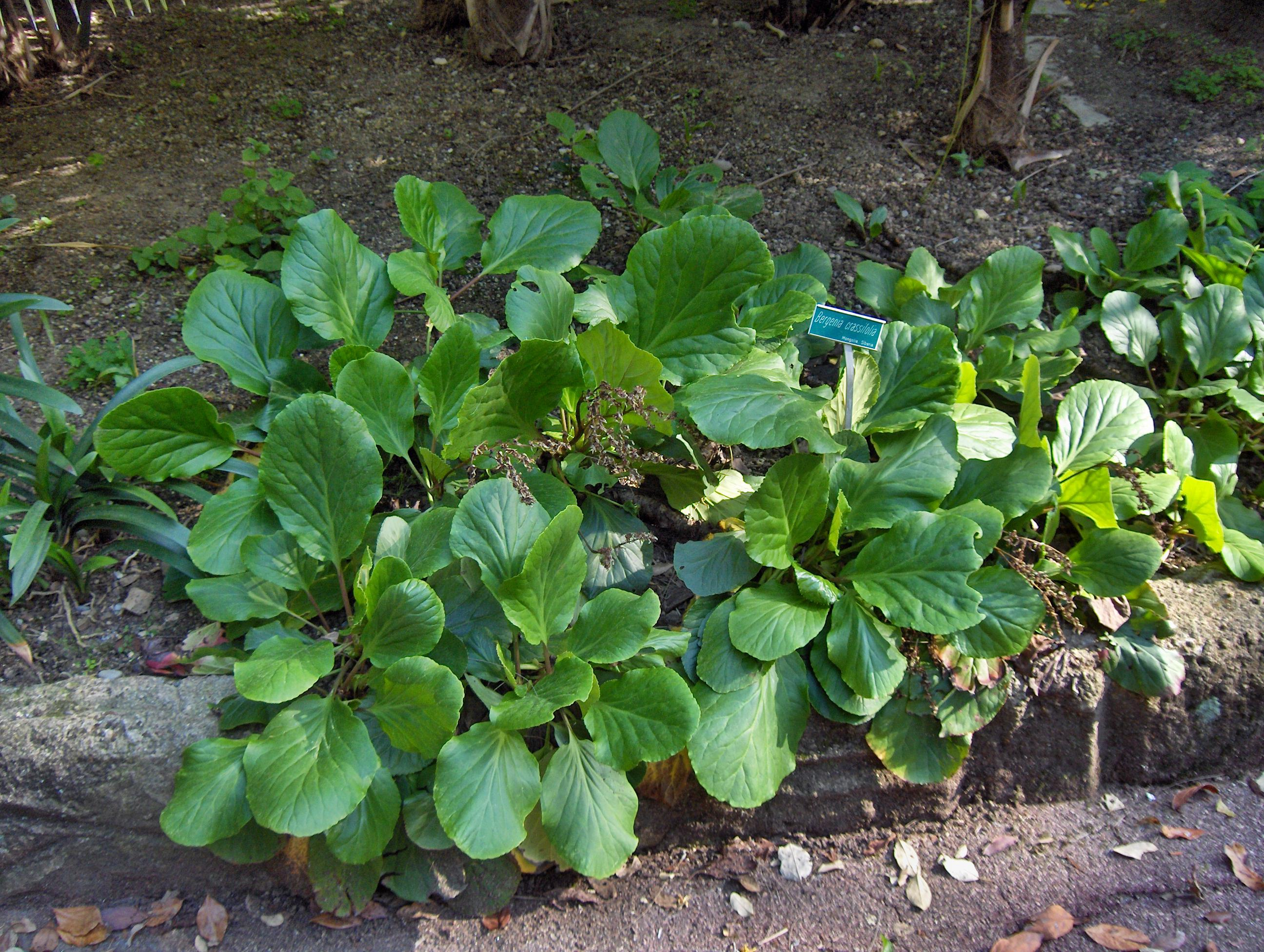 Bergenia crassifolia; botanic garden, San Remo, Italy